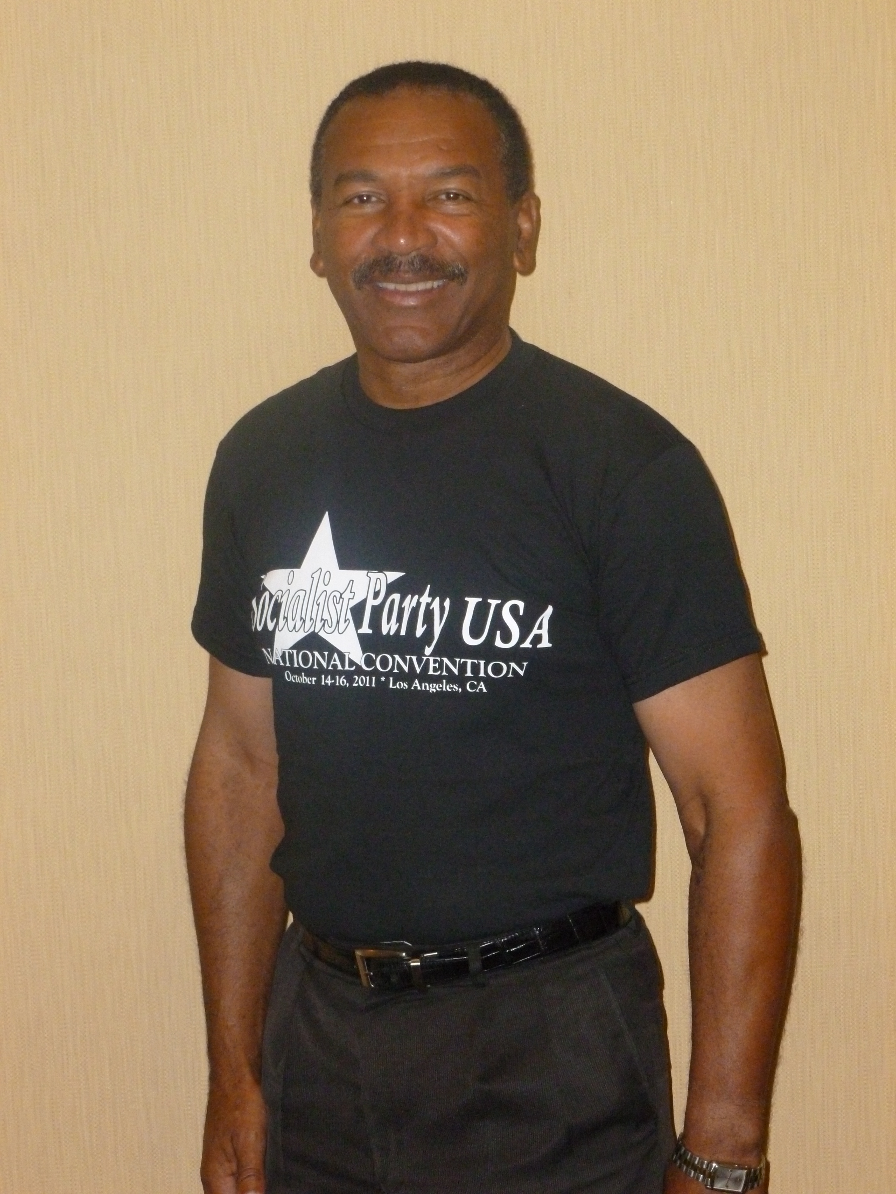 Stewart Alexander - October 16, 2011 - Holiday Inn LAX, Los Angeles, CA - Official Campaign Photo. I am the photographer and have the legal rights to this photograph. It is released to the public domain with this upload.